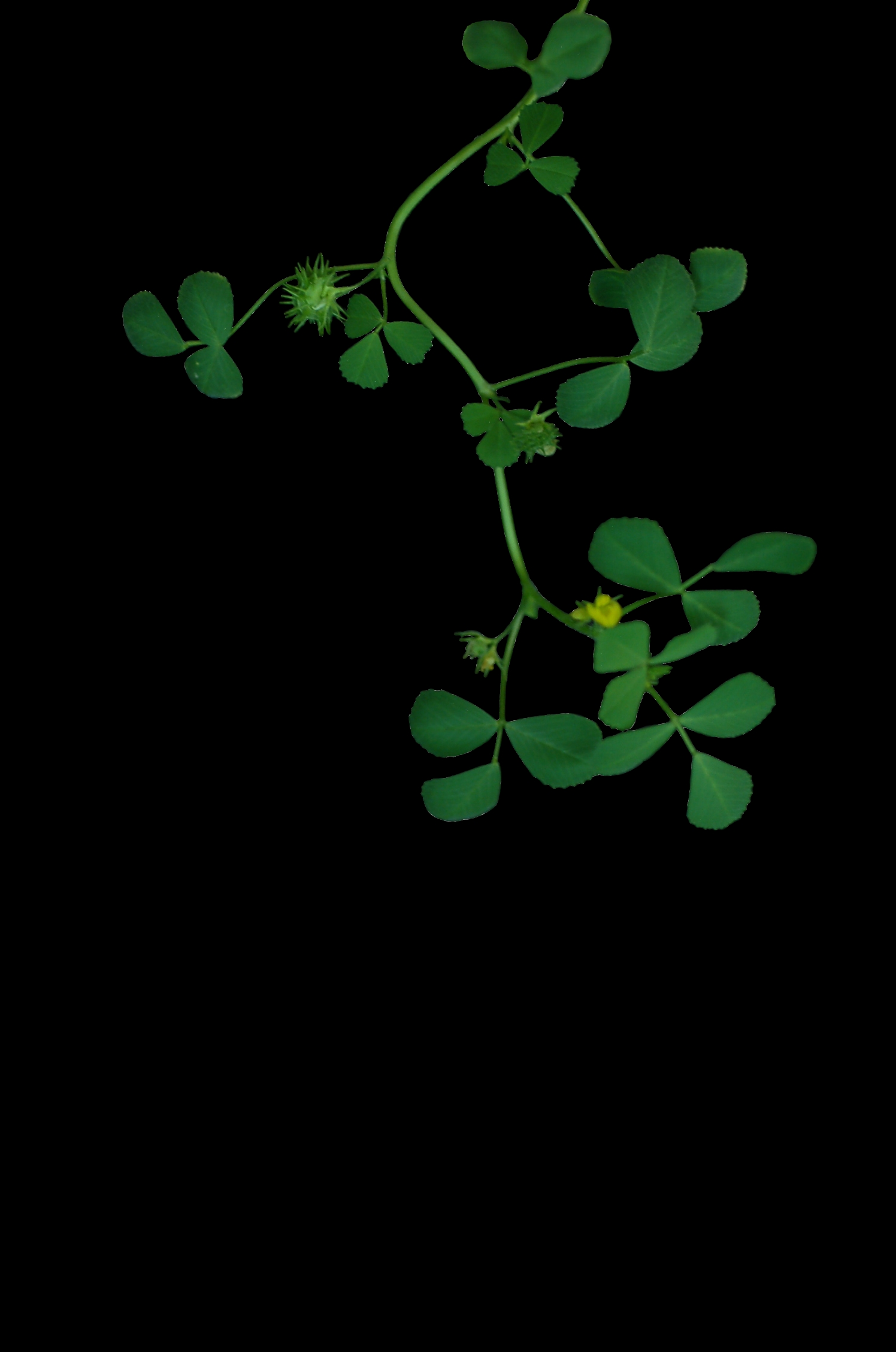 A photograph of Medicago truncatula A17 showing the shoot with leaves and seed pods.